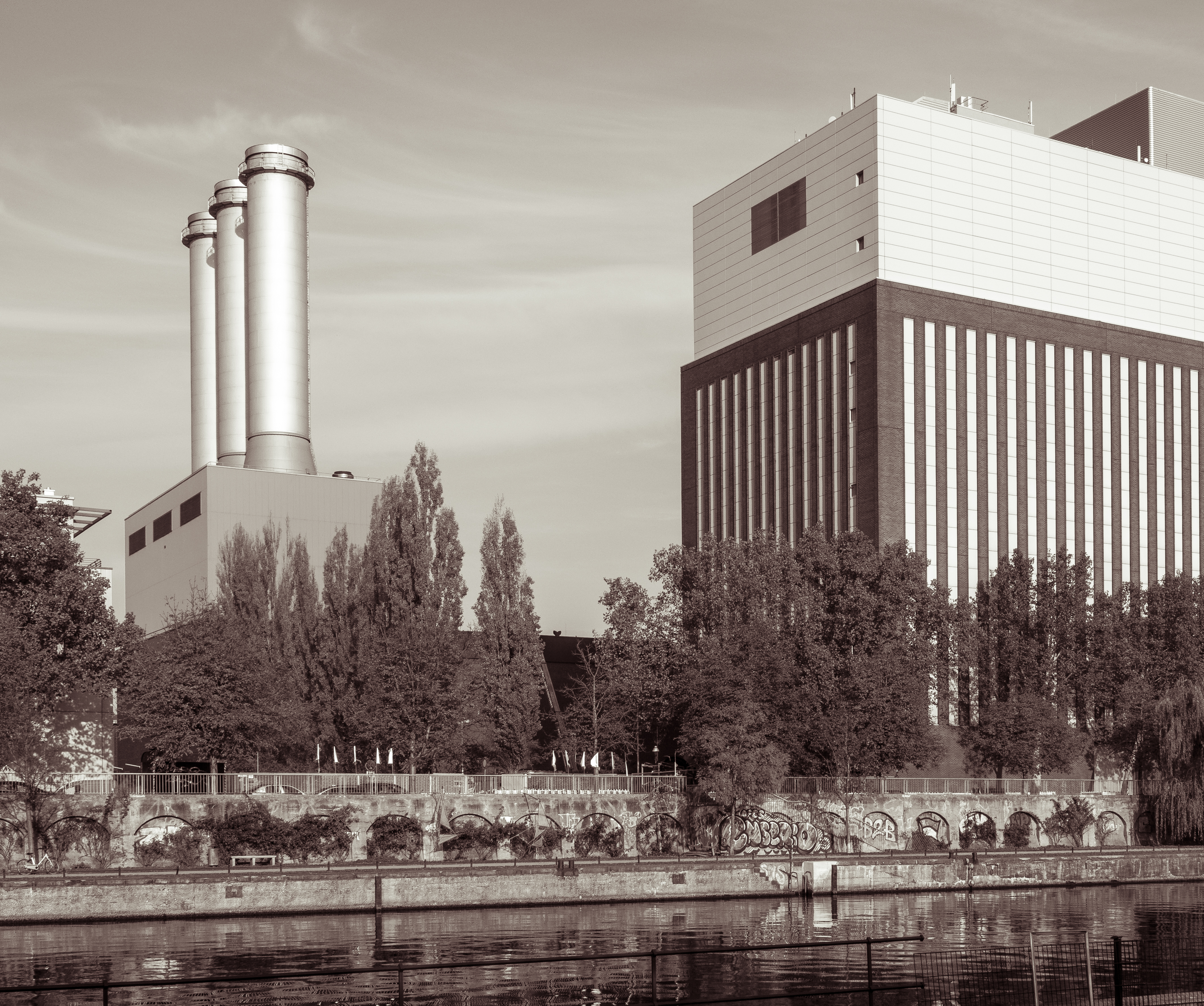 Berlin, Spree, Spree-side view of Heizkraftwerk Charlottenburg from Iburger Ufer